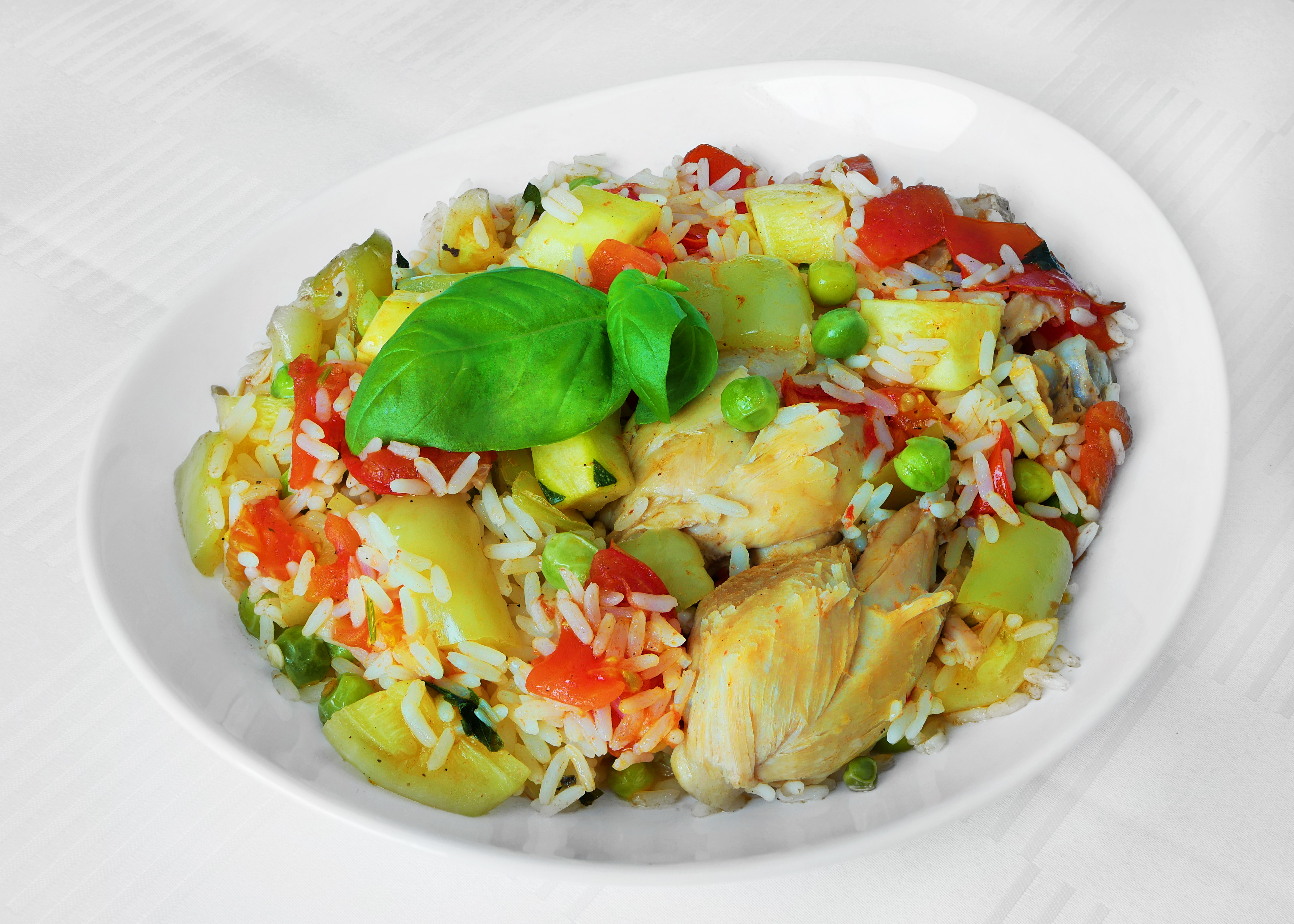 Parboiled rice with chicken, peppers, squash, peas and tomato. Recipe from a cookbook for women with Gestational diabetes (original recipe has brown rice and beef, instead of parboiled rice and chicken). Cookbook written by Ana Žontar Kristanc, ISBN 978-961-93983-2-6 This photograph was taken with a Panasonic Lumix DMC-G85/G80